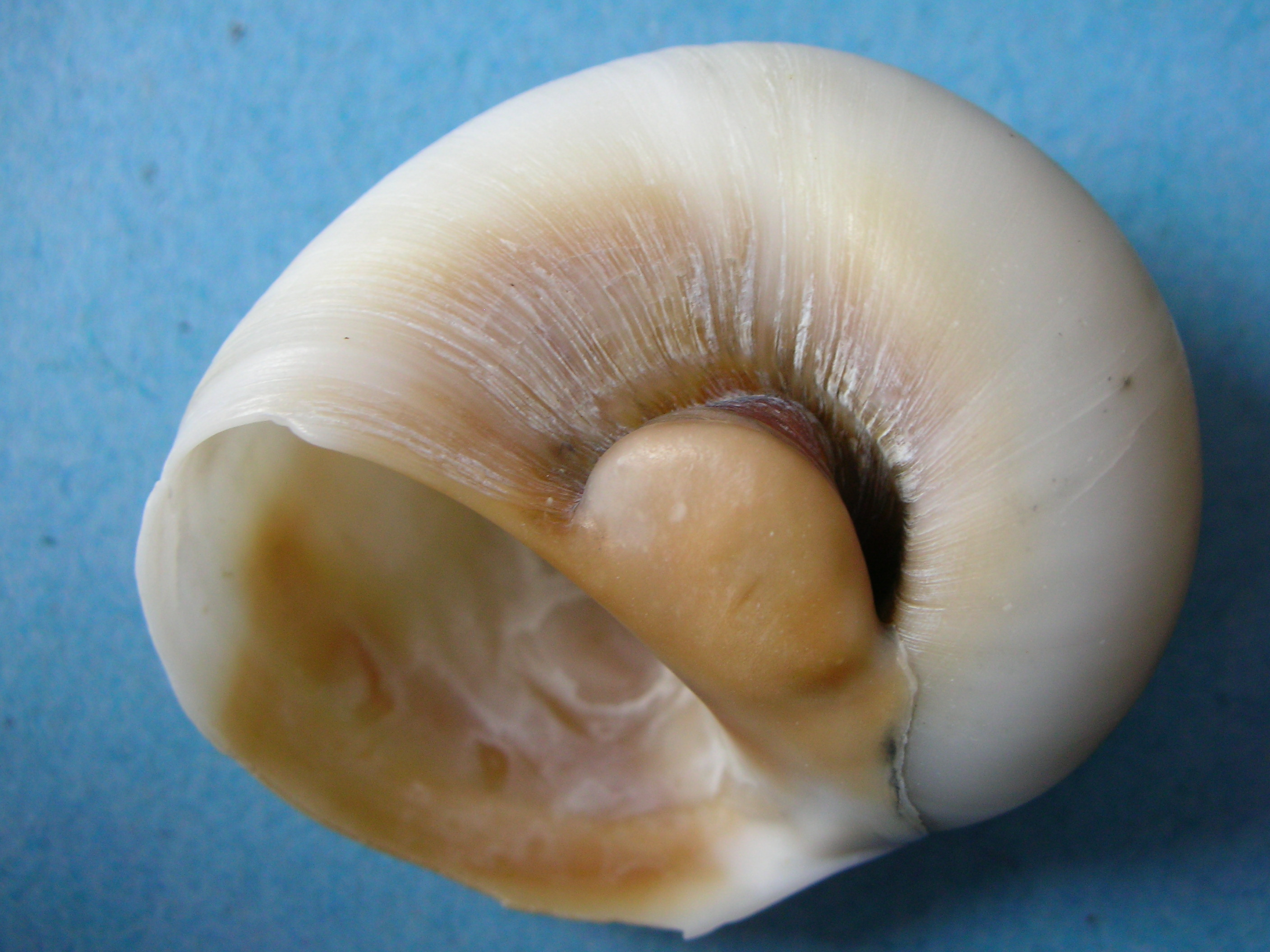 Neverita josephinia Risso, loc. Torregaveta, Bacoli(NA) Italy